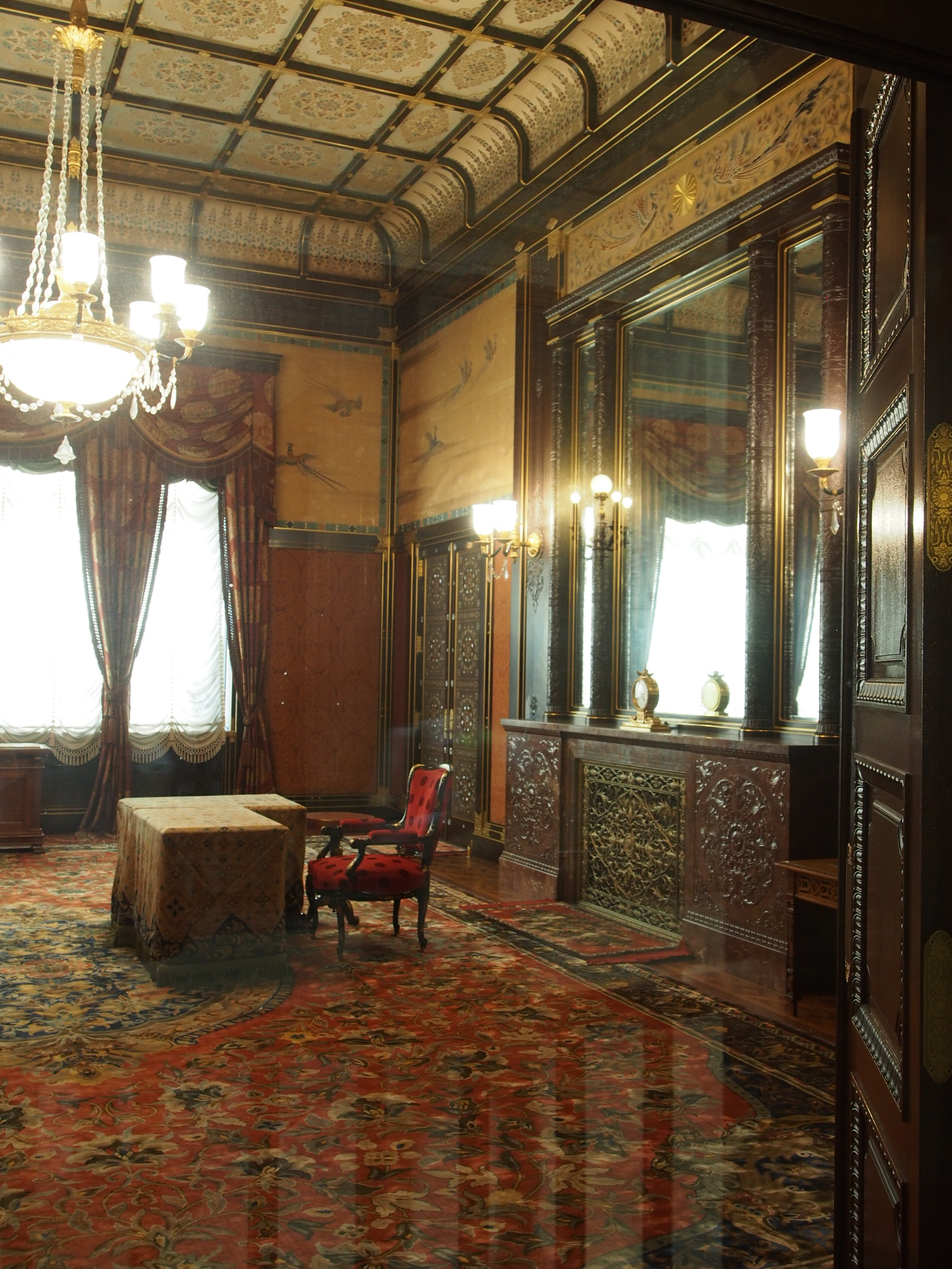 Emperor's Room in the National Diet Building of Japan. Photographed on Open House day of the House of Councillors.